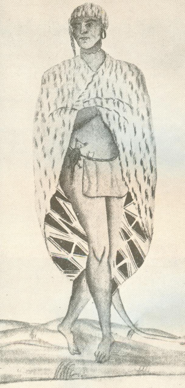 An Atakapa Indian in his winter clothing.